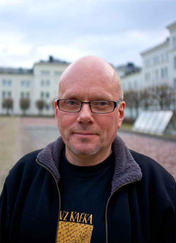 Olle Johansson